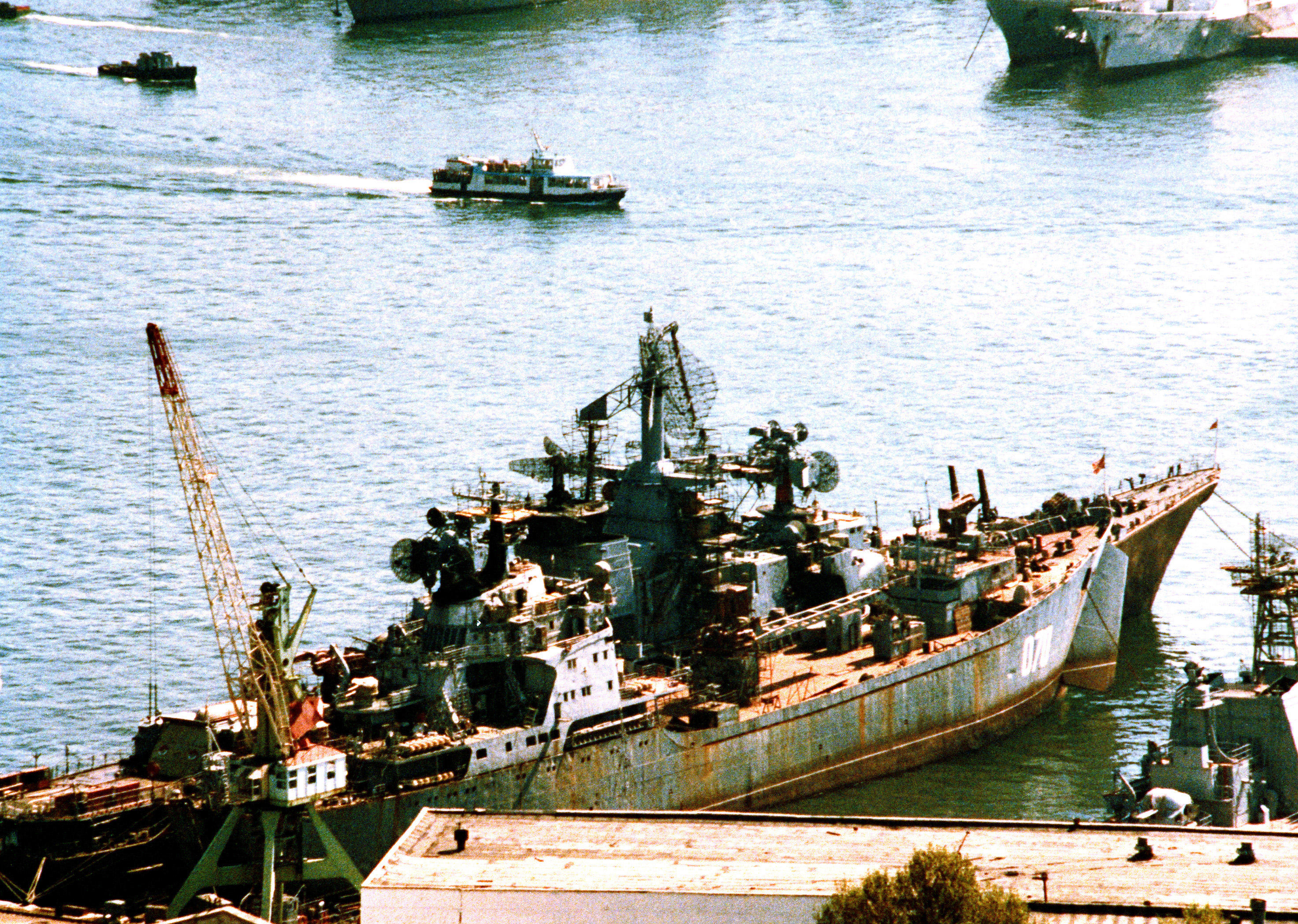 A Soviet Alligator class tank landing ship, foreground, and a Soviet Kresta II class guided missile cruiser lie tied up together in a refitting yard during a U.S. Navy visit to the city.